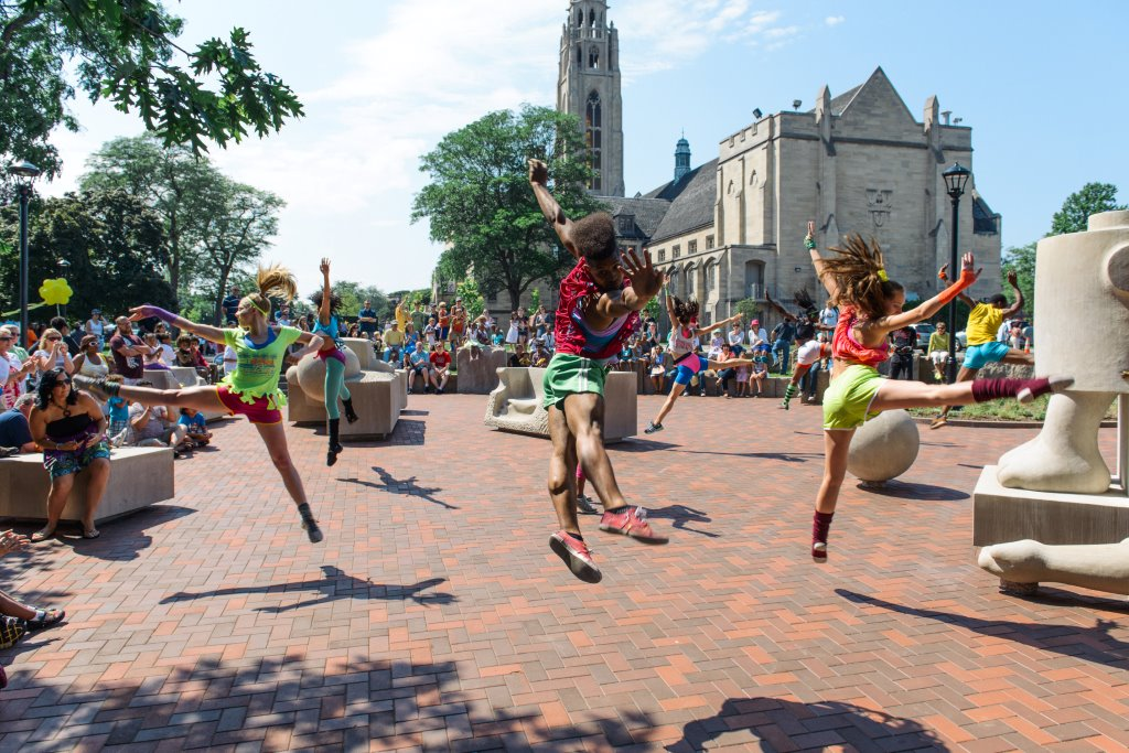 Family Day in the Centennial Sculpture Park. Photograph by Brandon Vick